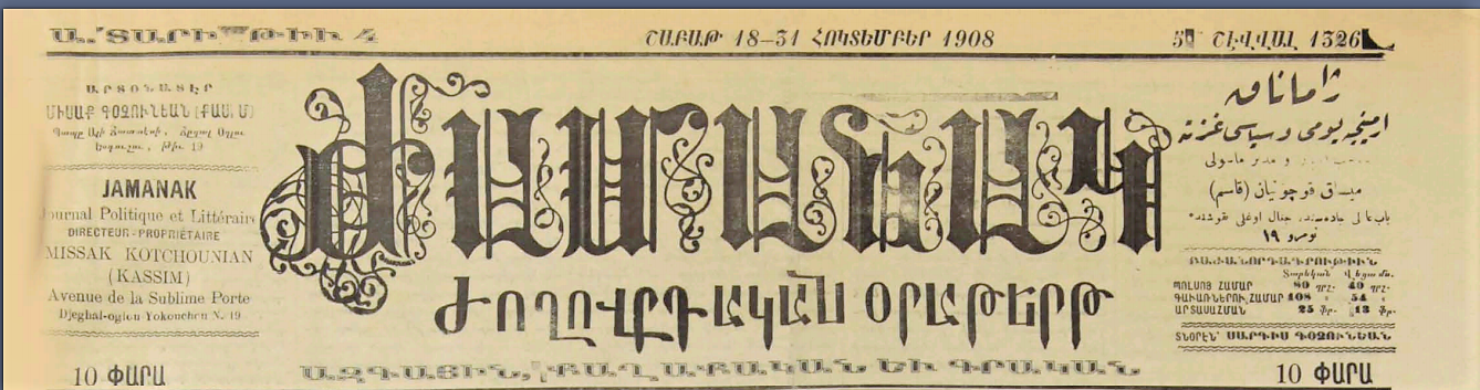 Jamanag, is a popular source of national, local and social news, and it is the longest continuously running Armenian language daily newspaper in Istanbul.